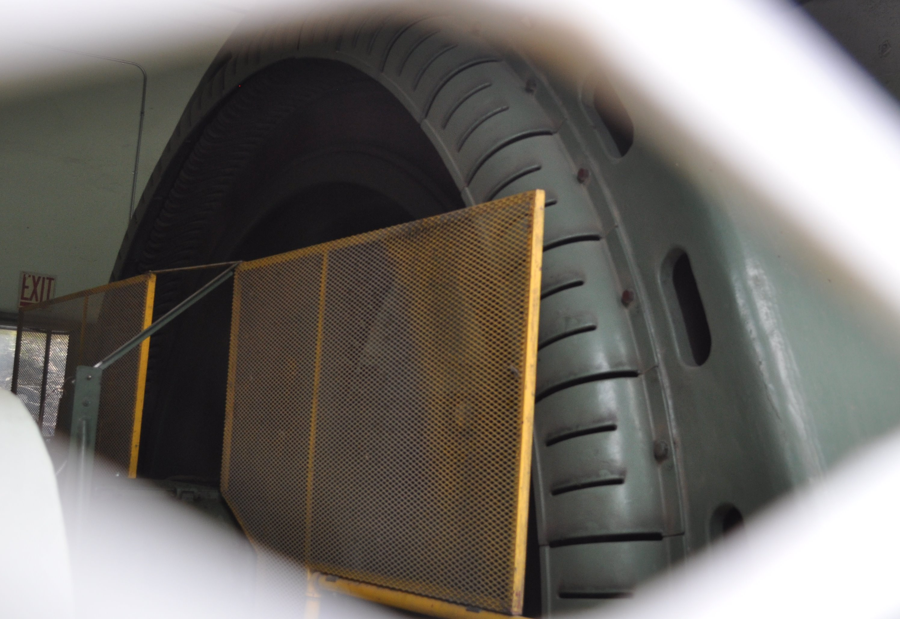 Generator of Ames Hydroelectric Generating Plant, located near Ophir, Colorado.